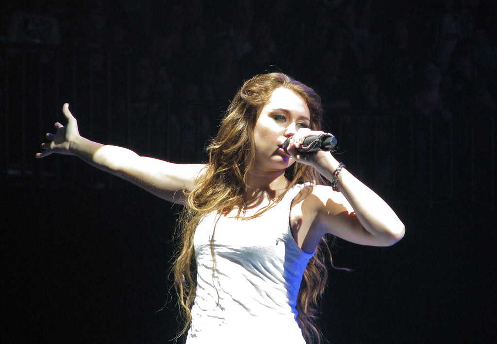 Pop singer Miley Cyrus performs "The Climb", wearing a white tank top and white hotpants, on September 14, 2009 at the Rose Garden in Portland, Oregon, as part of her 2009 Wonder World Tour.